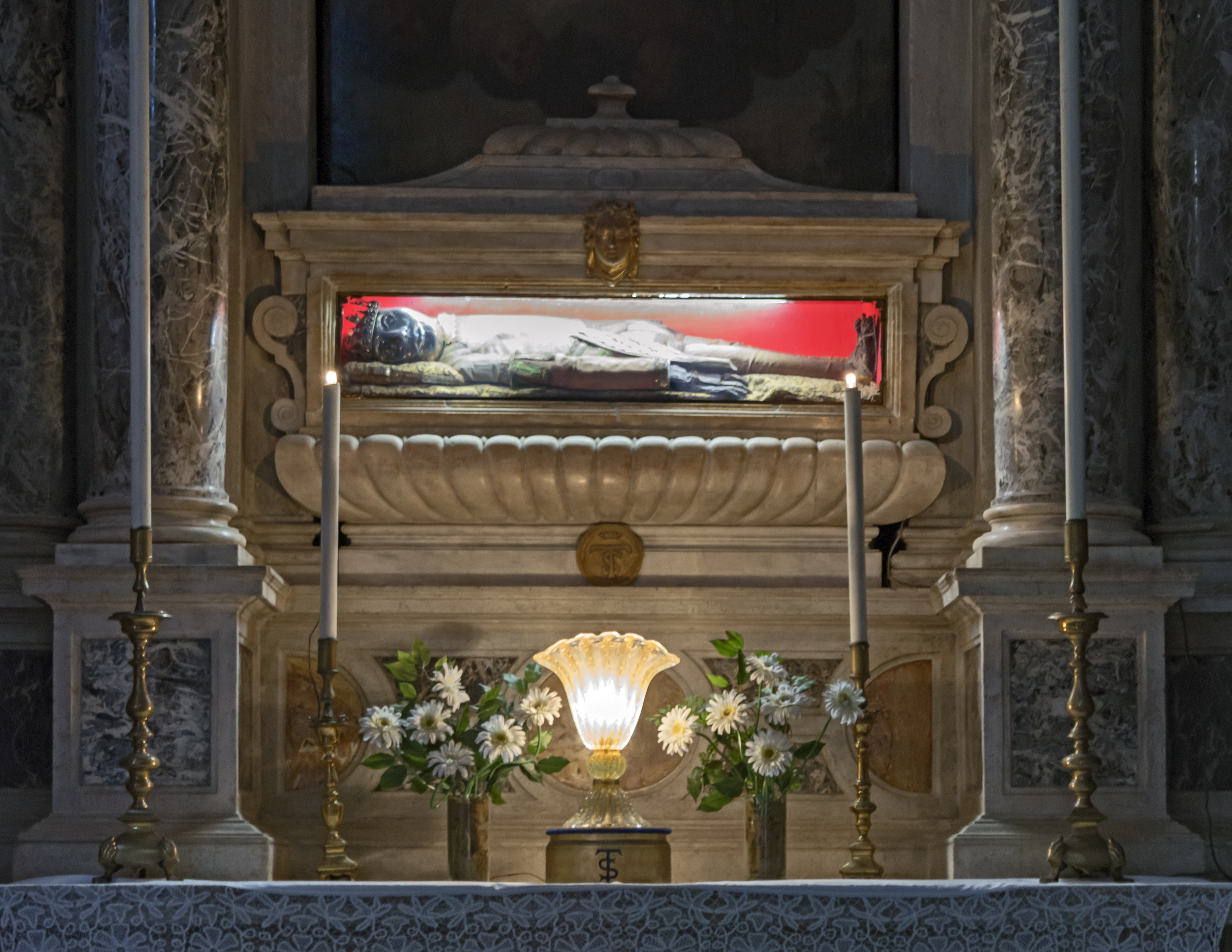 Church of San Salvador, in Venice, the chapel on the right of the choir is dedicated to San Teodoro or San Todaro, the first patron of Venice. On the altar - the urn containing the saint's body was brought in 1257 by Jacopo Dauro Messembria of the Church in Asia Minor to Constantinople; his brother Marco, ten years later led him to Venice, and donated to the church of San Salvador.